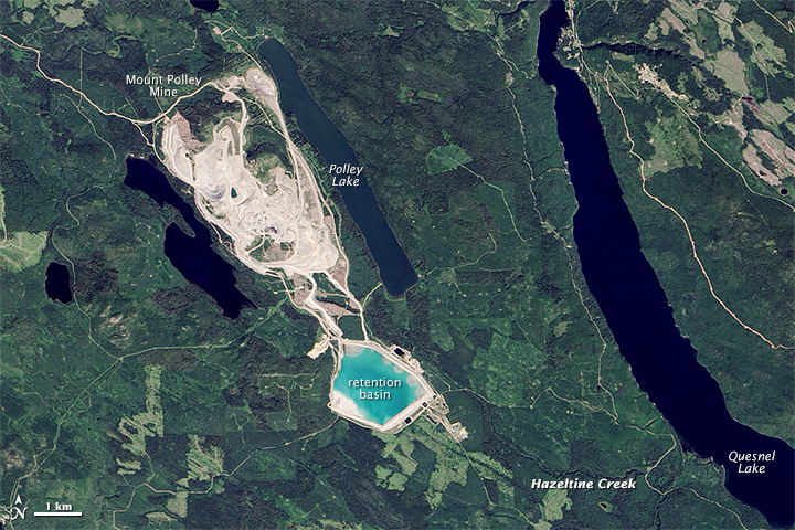 Mount Polley Mine site in British Columbia on July 24, 2014 prior to the dam breach on August 4, 2014